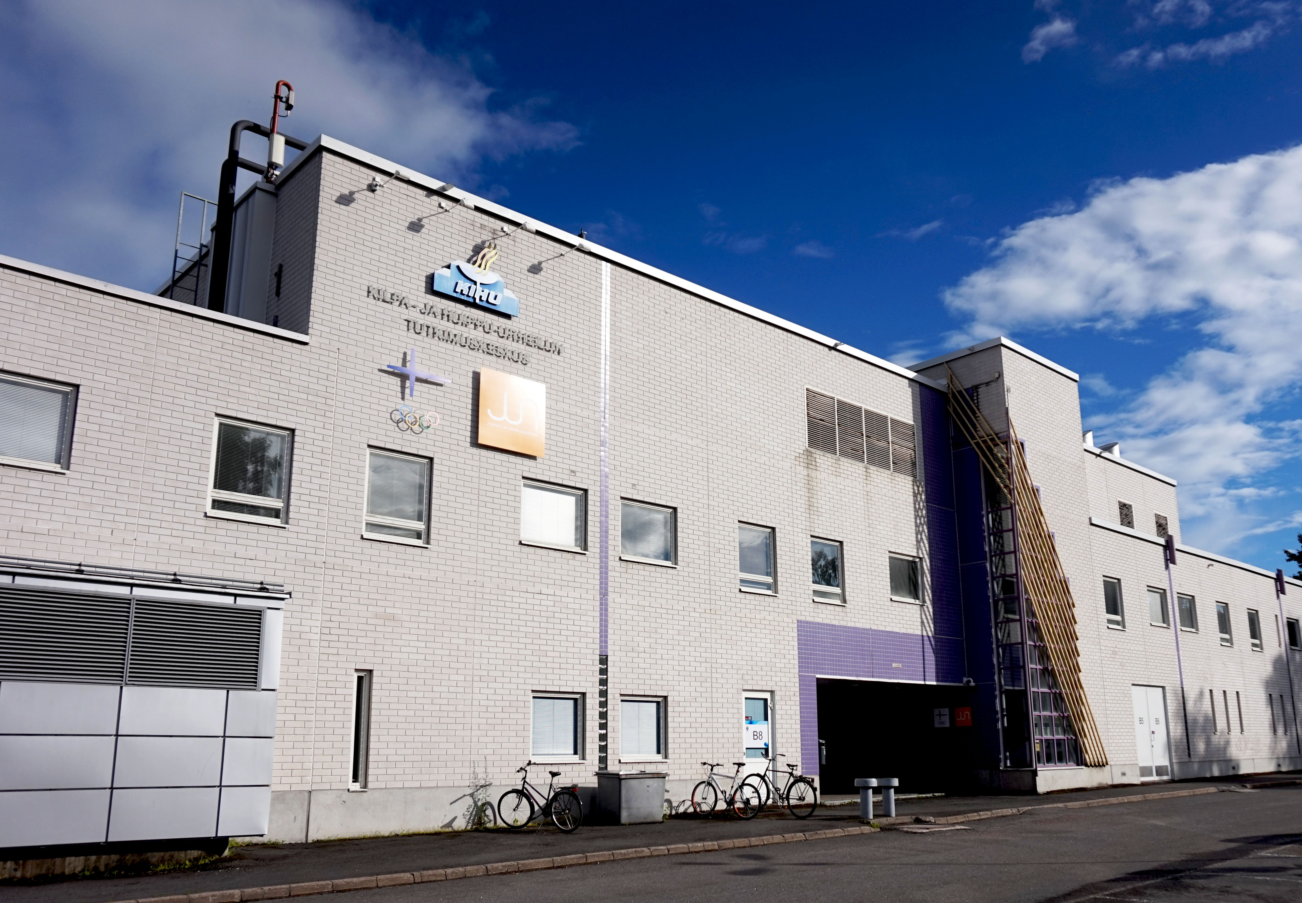 Research Institute for Olympic Sports KIHU in Jyväskylä.